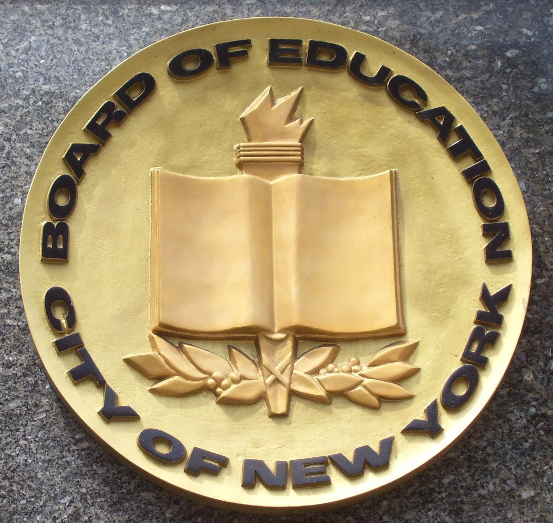 The seal of the NYC Board of Education, c.1955, on the facade of the Asher Levy Campus at 185 First Avenue on the full block between East 11th and 12th Streets in the East Village neighborhood of Manhattan, New York City. The building houses P.S. 19 and the Technology, Arts, and Sciences Studio middle school, M301. The Board of Education was once semi-independent from city government and ran the school system. Now it is the governing board for the NYC Department of Education, a mayoral agenc which runs the system. (Source: GIS map)